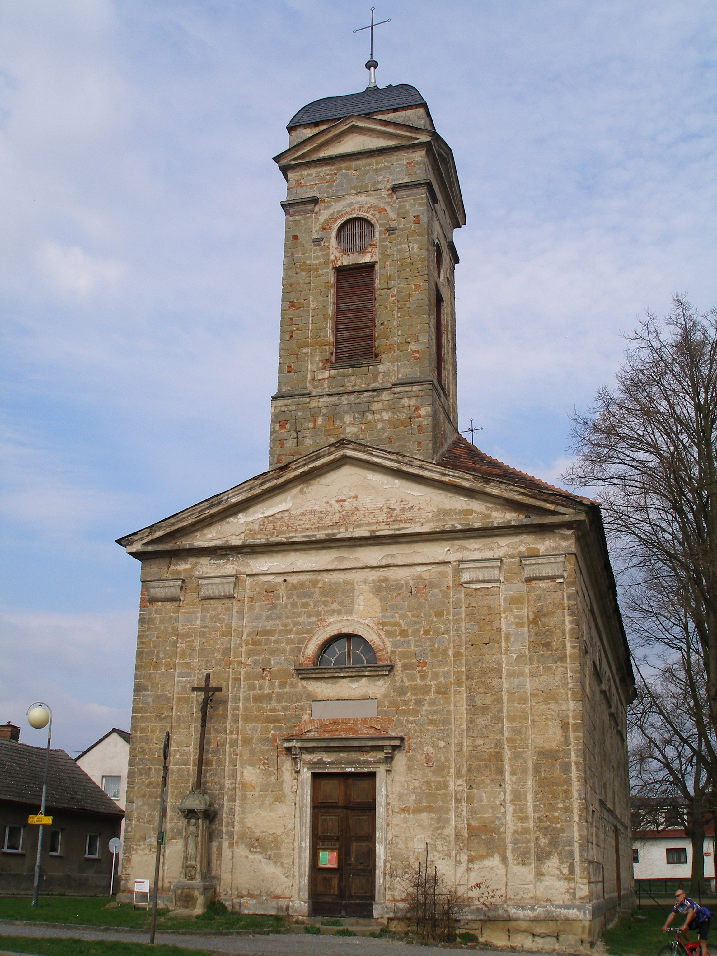 Church in Kněžmost.